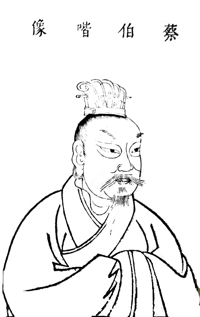 A portrait of the Cai Yan from Sancai Tuhui. Bân-lâm-gú: Sam-tsâi Tôo-huē ê Tshuà Iong siàu-siōng. 《三才圖會》的蔡邕肖像。